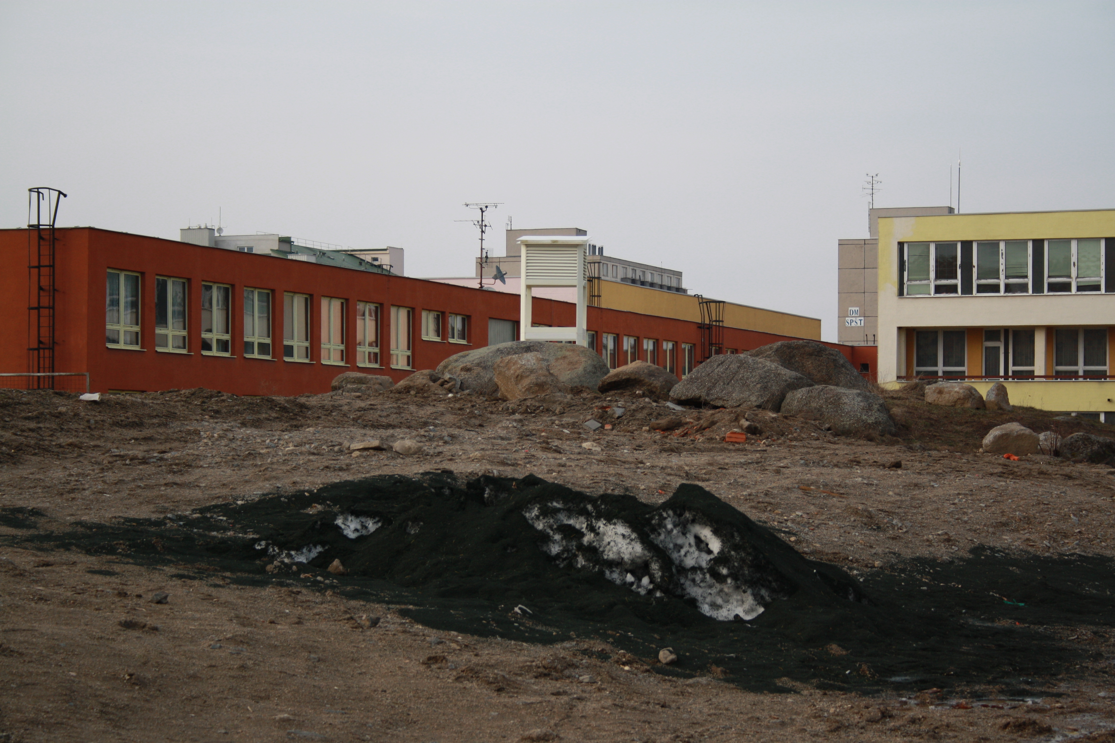 Meteostation of SPŠT in Třebíč, Czech Republic.